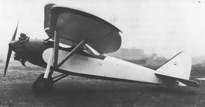 Prototype of Polish PZL Ł.2 liaison aircraft